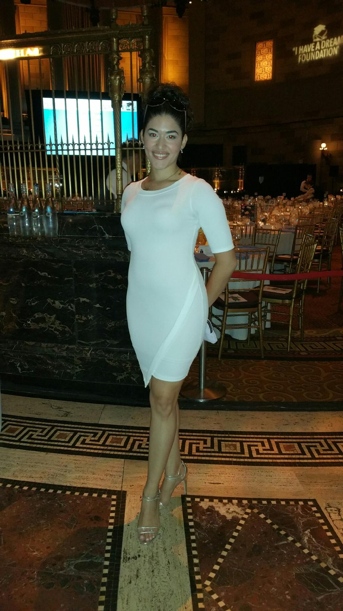 Stephanie Andujar at the Spirit of the Dream Gala at Gotham Hall in New York City.